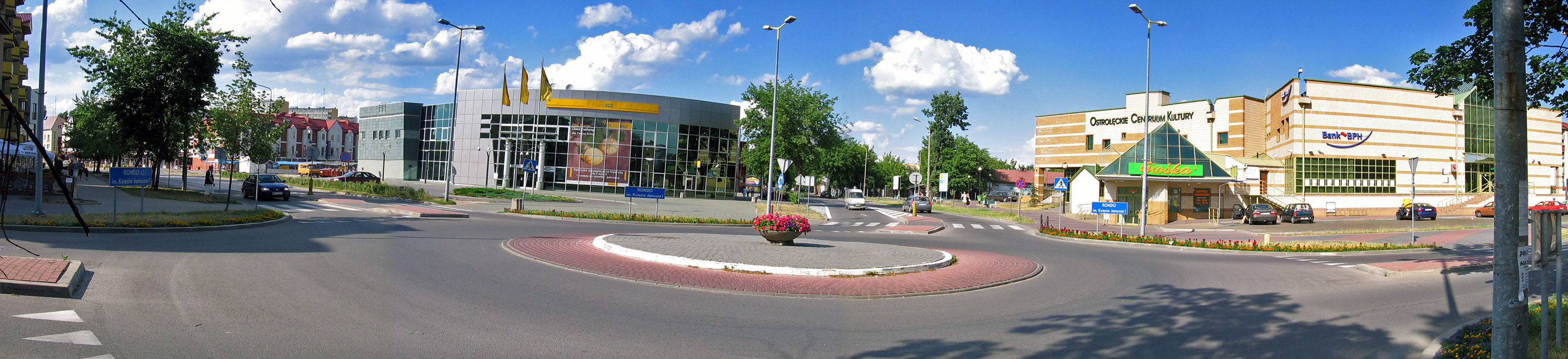 City of Ostroleka (Poland), Prince Janusz's rondo.